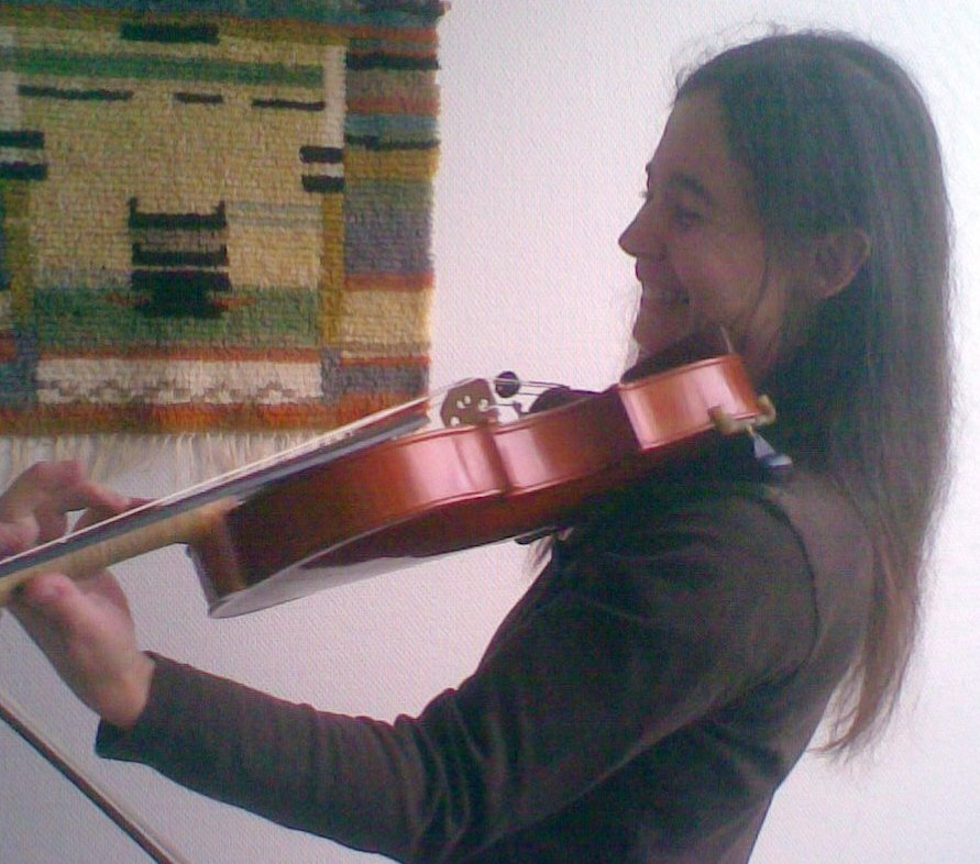 Depicts composer and violist Clara Petrozzi